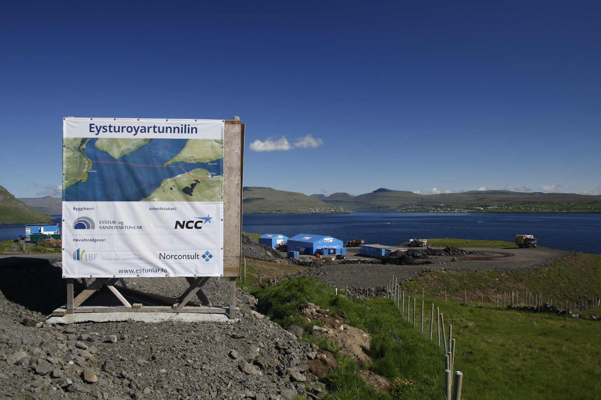 Eysturoyartunnilin under construction at Hvítanes, overlooking the Tangafjørður strait and Eysturoy, June 2017.